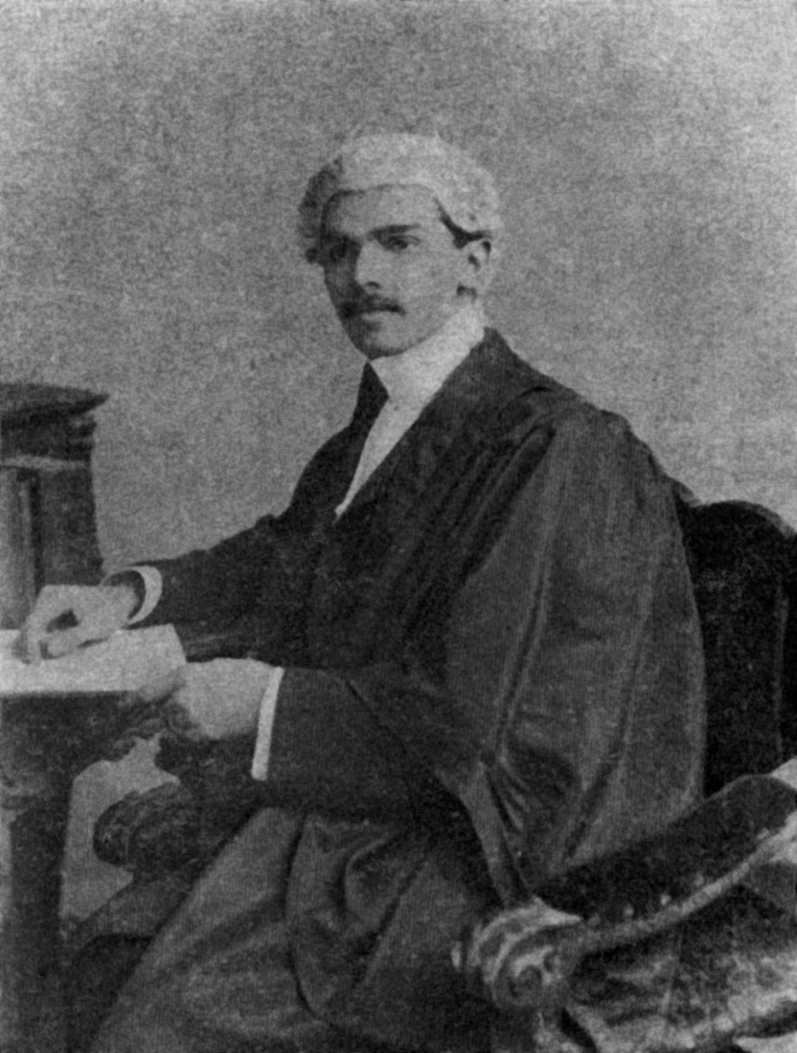 M. A. Jinnah in barrister's robes